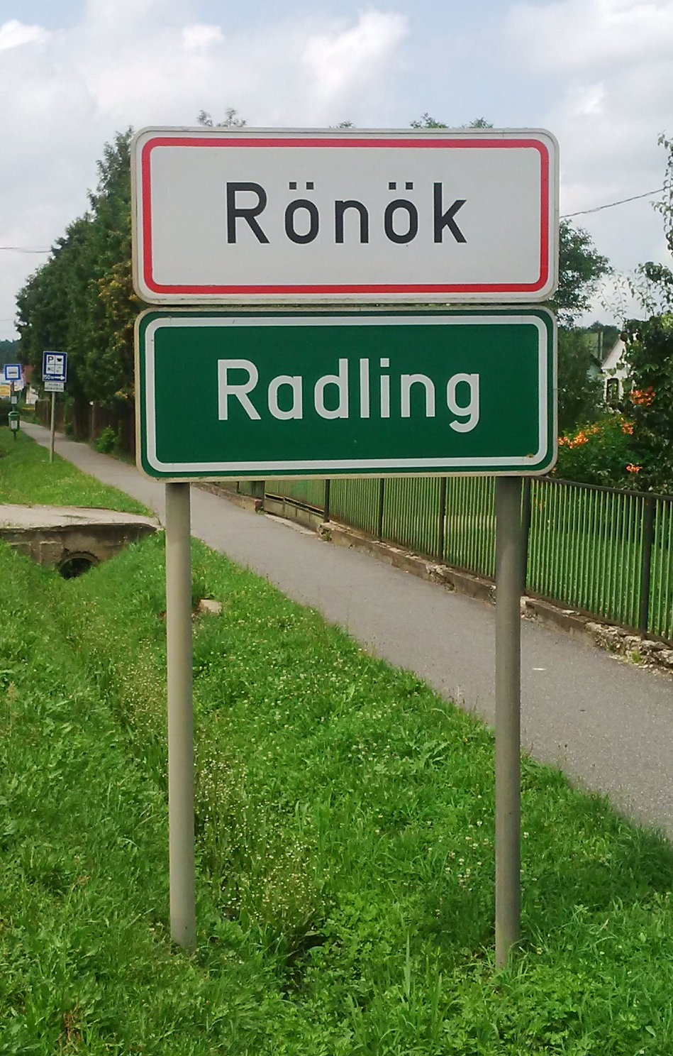 multilingual sign Rönok/Radling